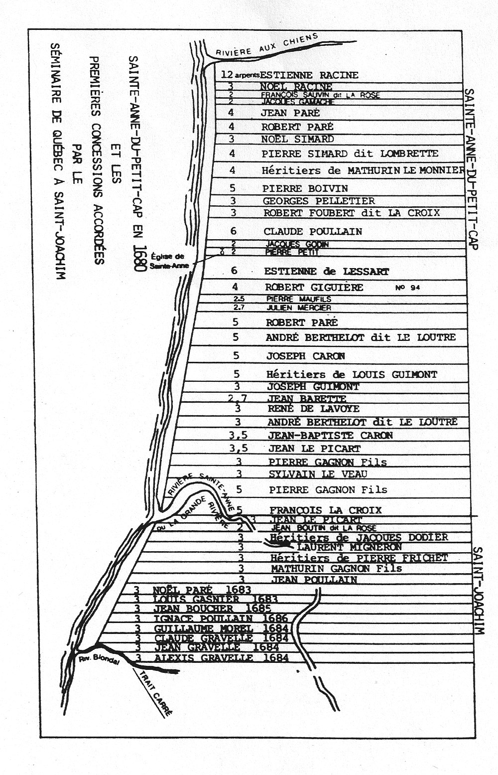 Plan of ownership of the land in Sainte-Anne-de-Beaupré in 1680.